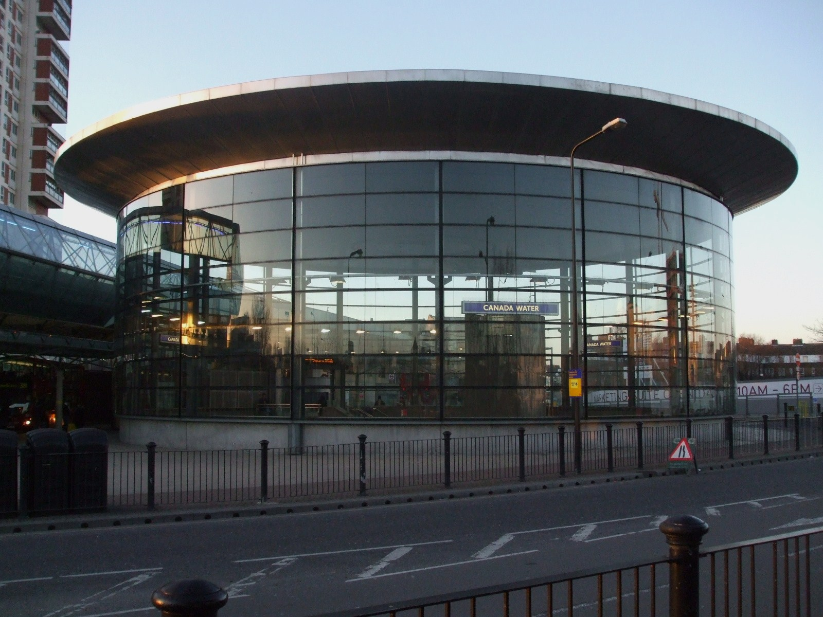 Canada Water tube station main building